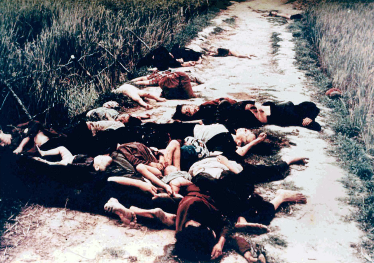 Unidentified Vietnamese bodies on road